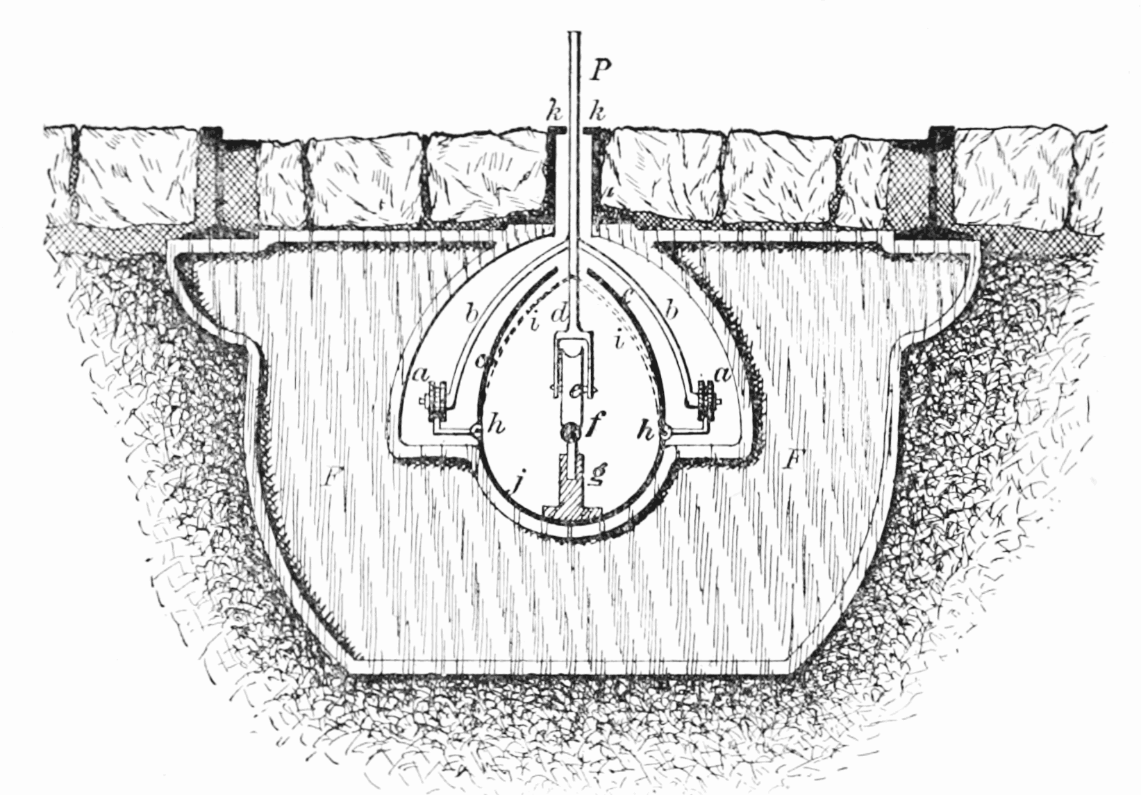 Shielded underground electrical conduit rail